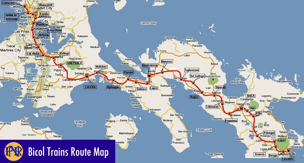 This is the Philippine National Railways route map taken from their website